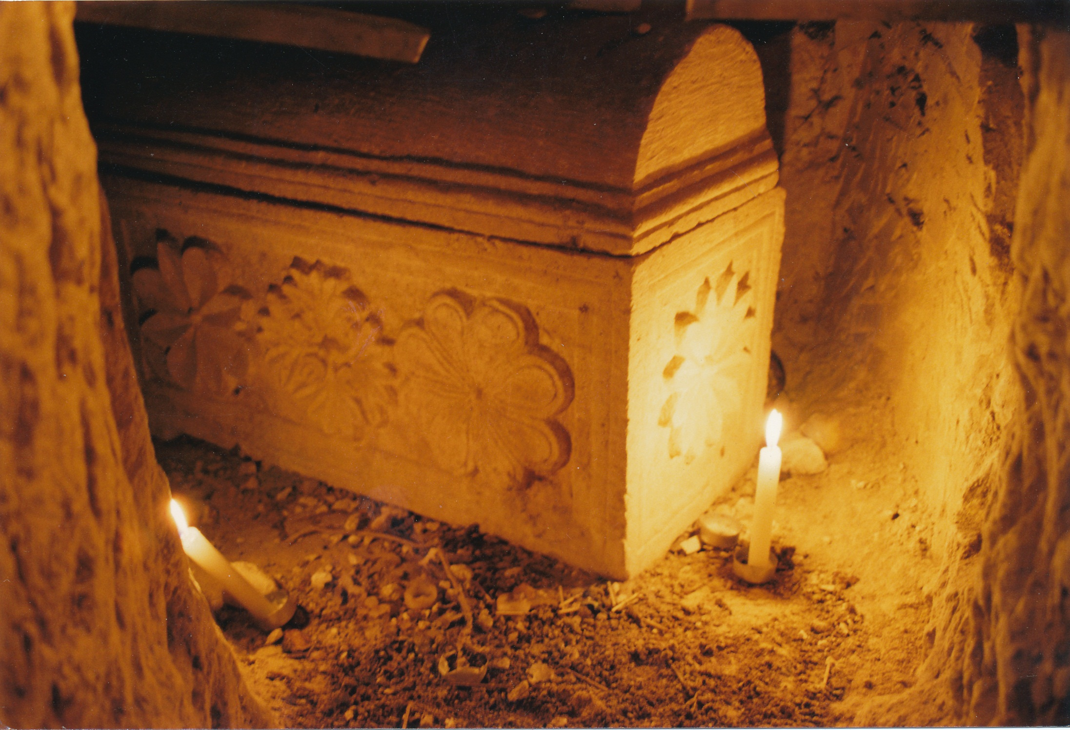 הגלוקסמה מוארת באור נרות